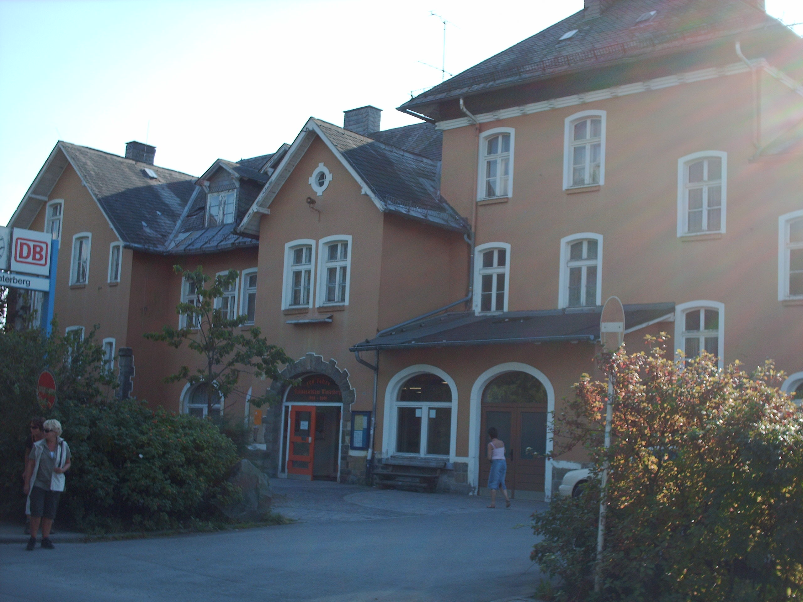 Winterberg (Westf) station, Winterberg, Germany check usage